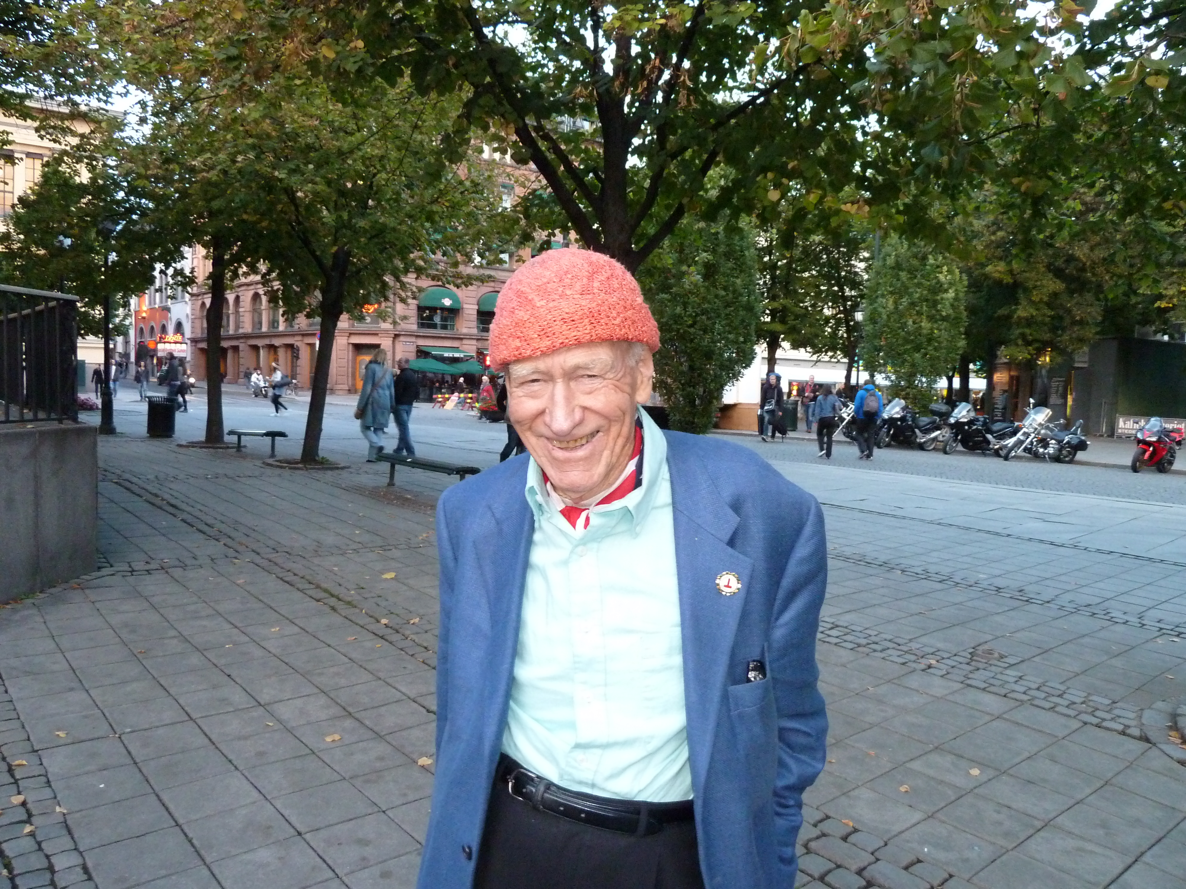 Norwegian businessman Olav Thon at Karl Johan street in Oslo during the Oslo book festival